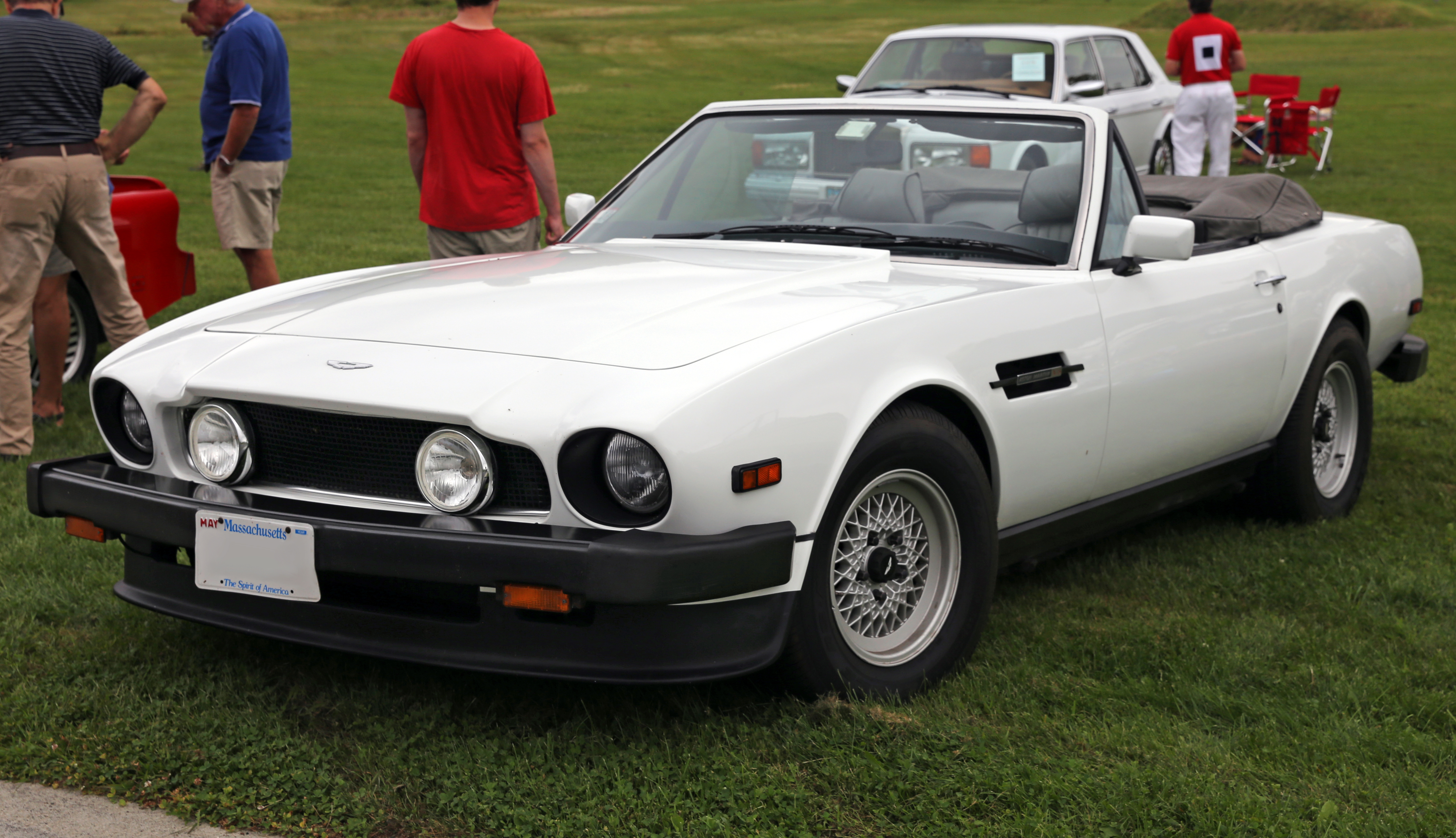 A 1986 Aston Martin V8 Volante seen at the 2014 Lime Rock Concours d'Élegance. US-series car with giant rubber bumpers and other indignities. Officially, this car is the "Volante Series 2", but most simply group it with the "V8 Series 5".